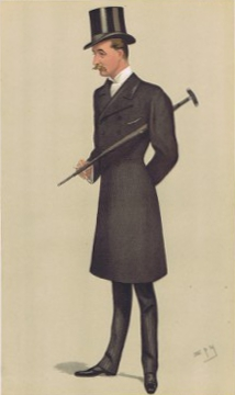 Caricature of Lord WC Gordon-Lennox PC MP. Caption read "Treasurer of the Household".